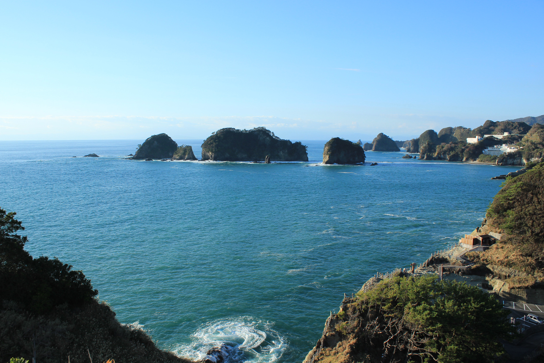 View of Dogashima coast with Sanshirojima in Nishiizu, Shizuoka Prefecture, Japan.